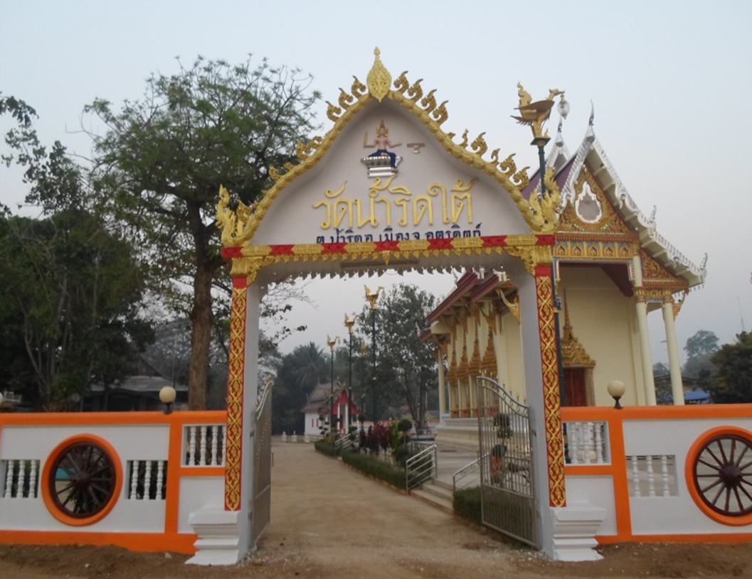 Wat Nam Rit Tai 01